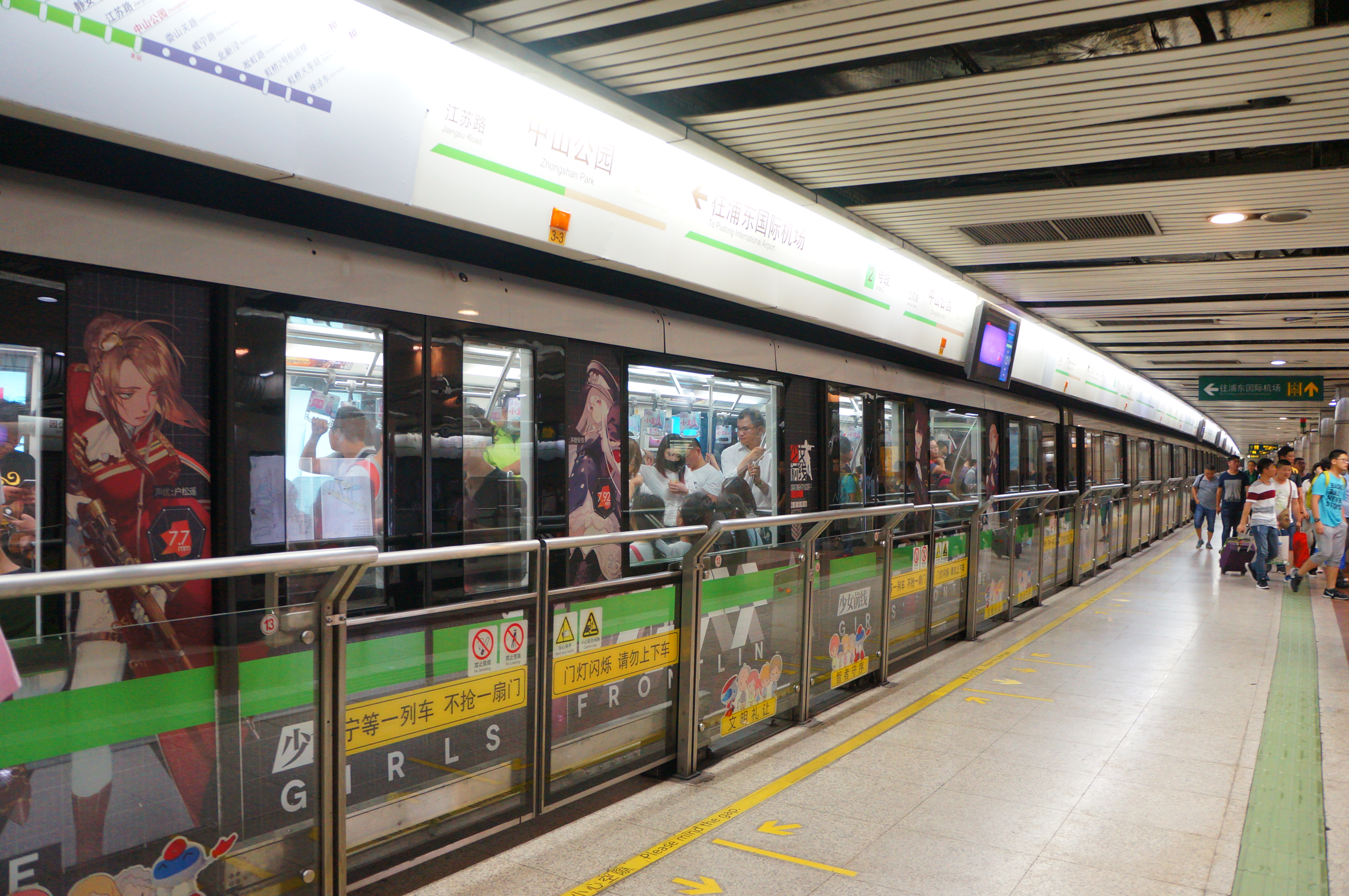 Girls' Frontline livery on AC08 at Zhongshan Park Station. The name of Tomatsu Haruka and Kayano Ai are presented.